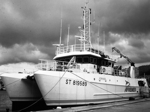 Dr. Armin Herbert - L'Europe